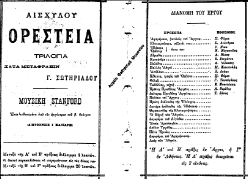 Orestiaka, program of the theatre performance